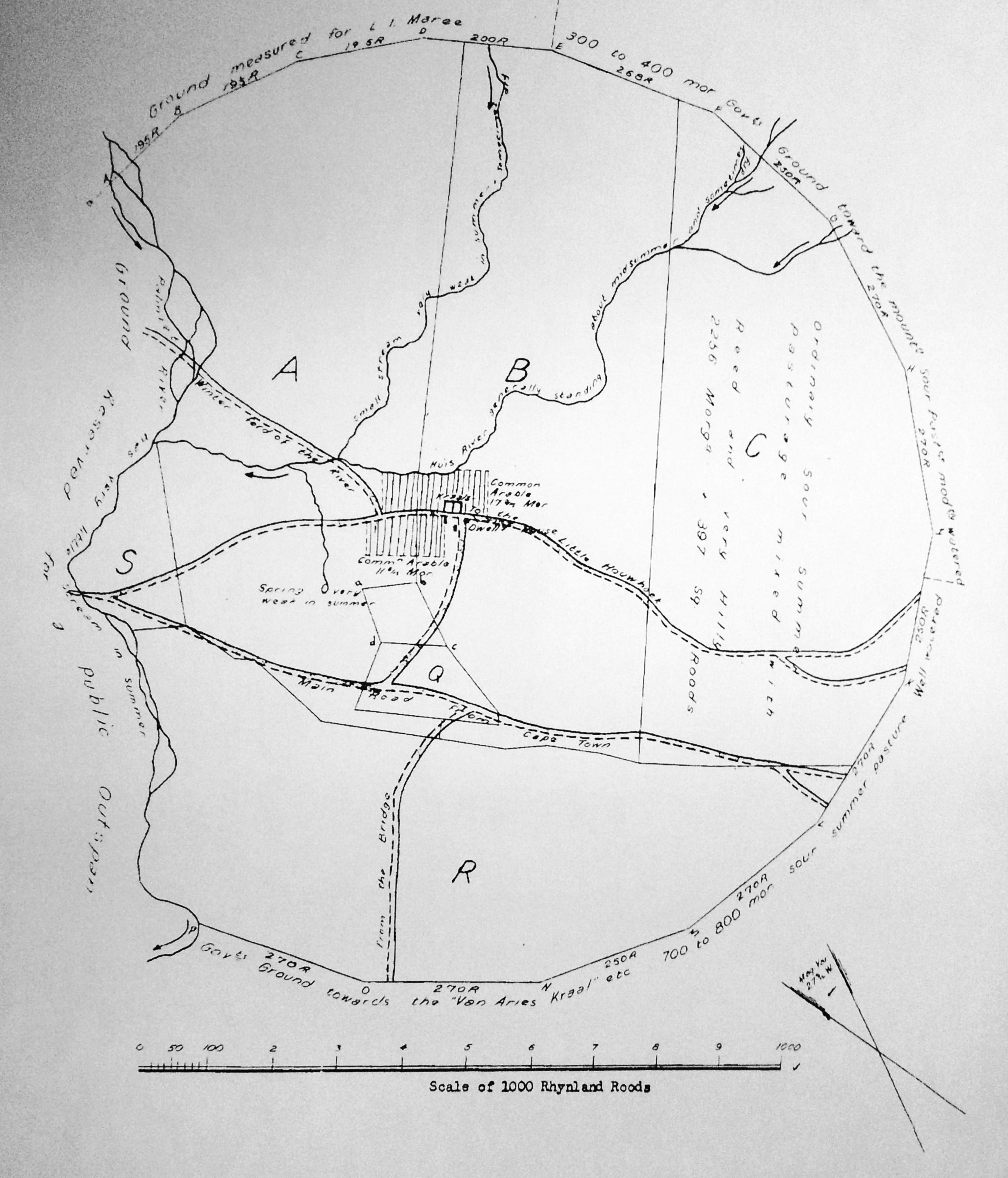 Photo taken in Wintersdrift Elgin. Map of Palmiet River farms and Glen Elgin